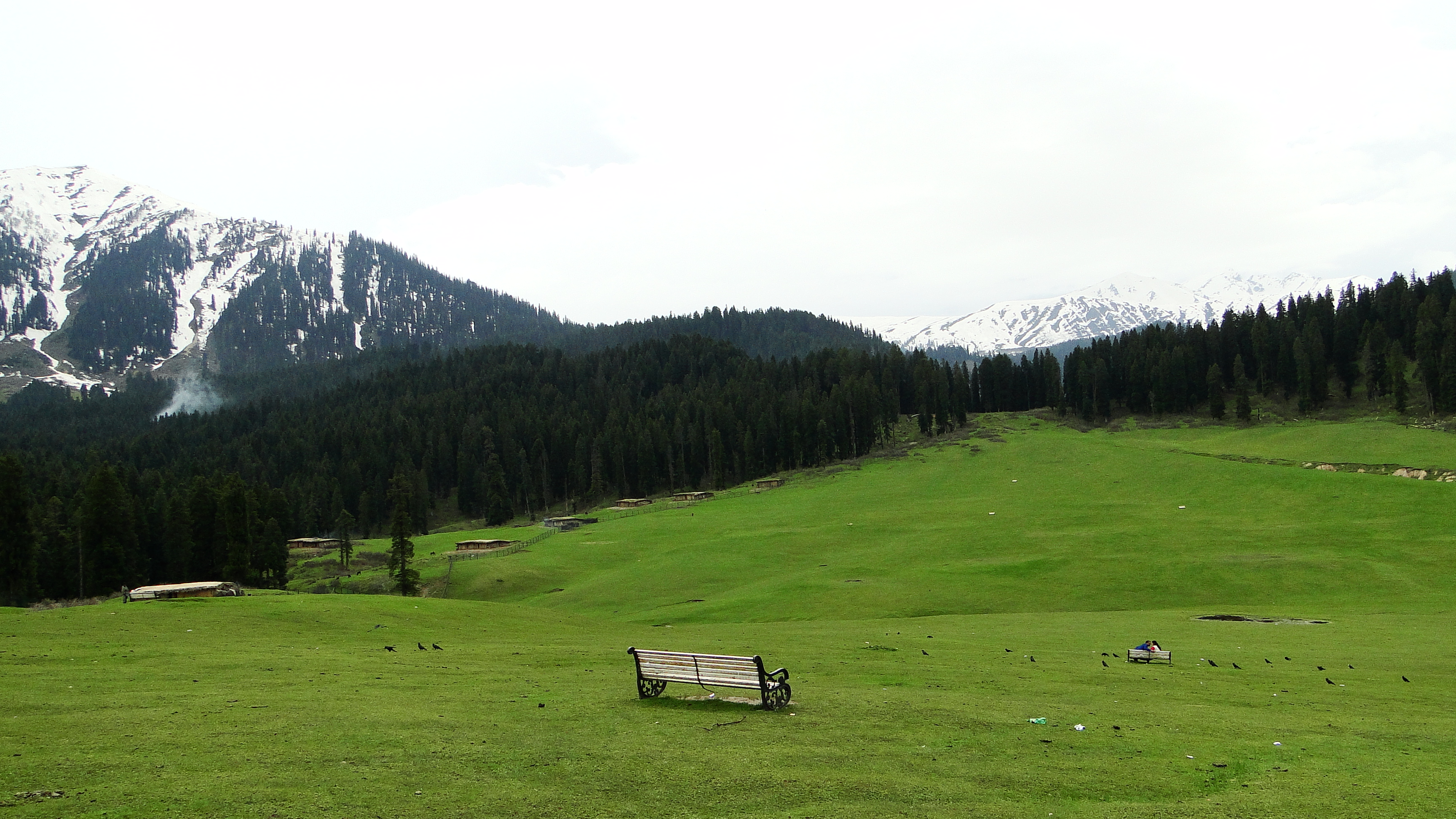 A bench with scenic view Doodhpathri, southwest Jammu and Kashmir, India. Nature, scenery in the Himalayas, May 2014